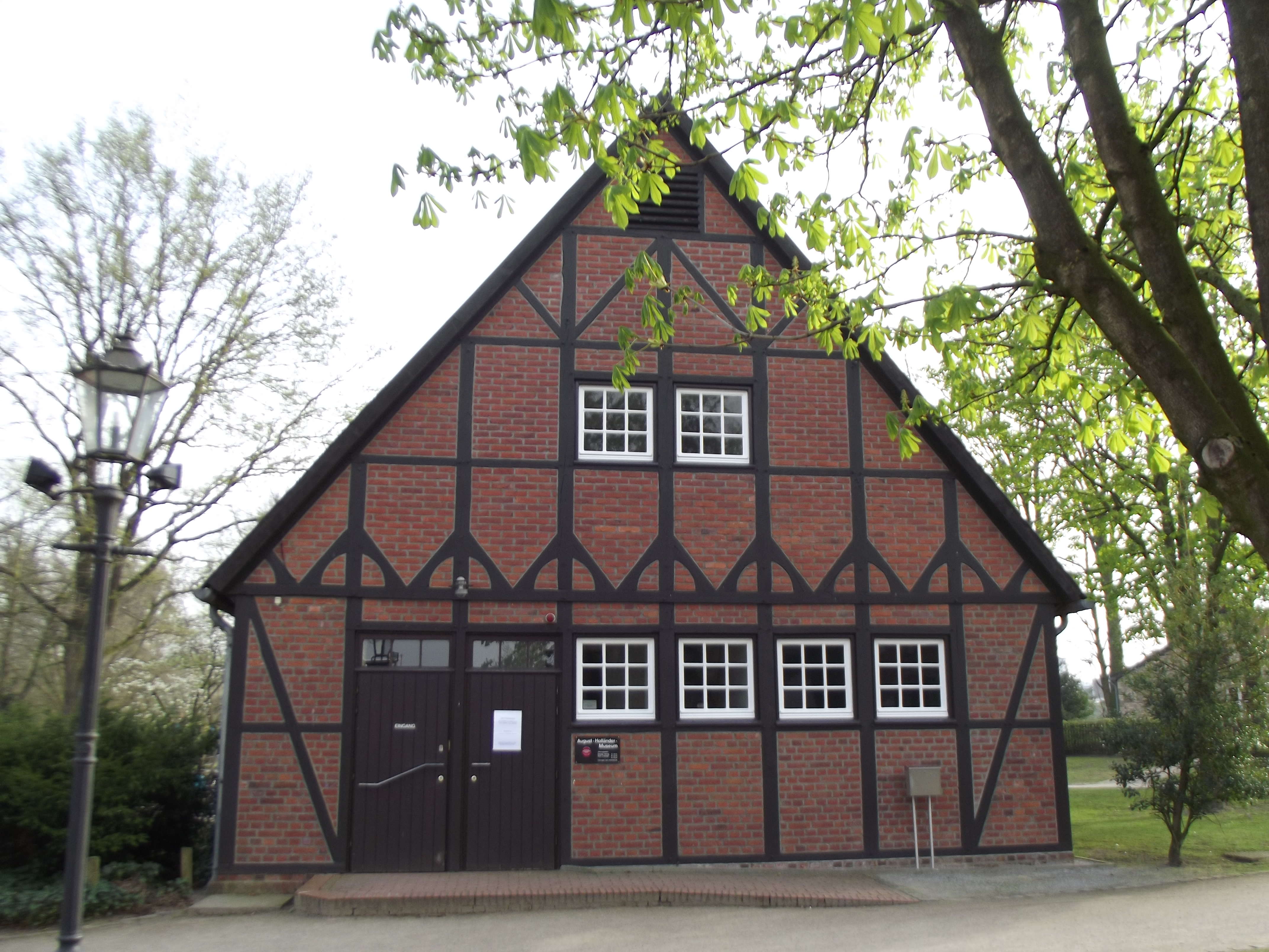 A museum in Emsdetten, Westphalia, Germany.